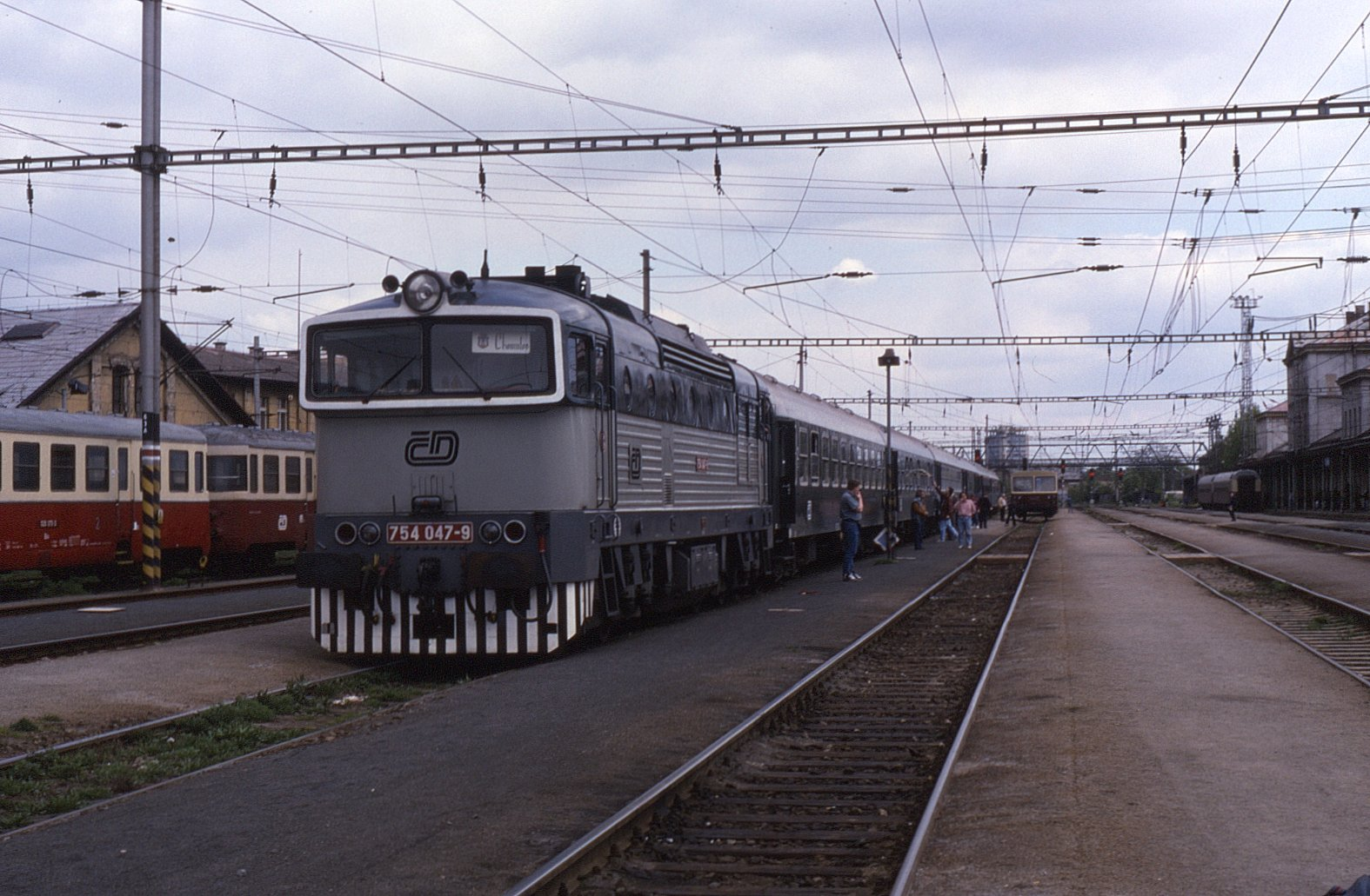 Seen towards the end of its long journey, 754.047 is photographed at Chomutov. Taken on 15 May 1995, train 672, 05:37 Břeclav to Karlovy Vary.